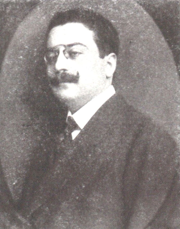 Leo Ascher (1880–1942}, Austrian composer